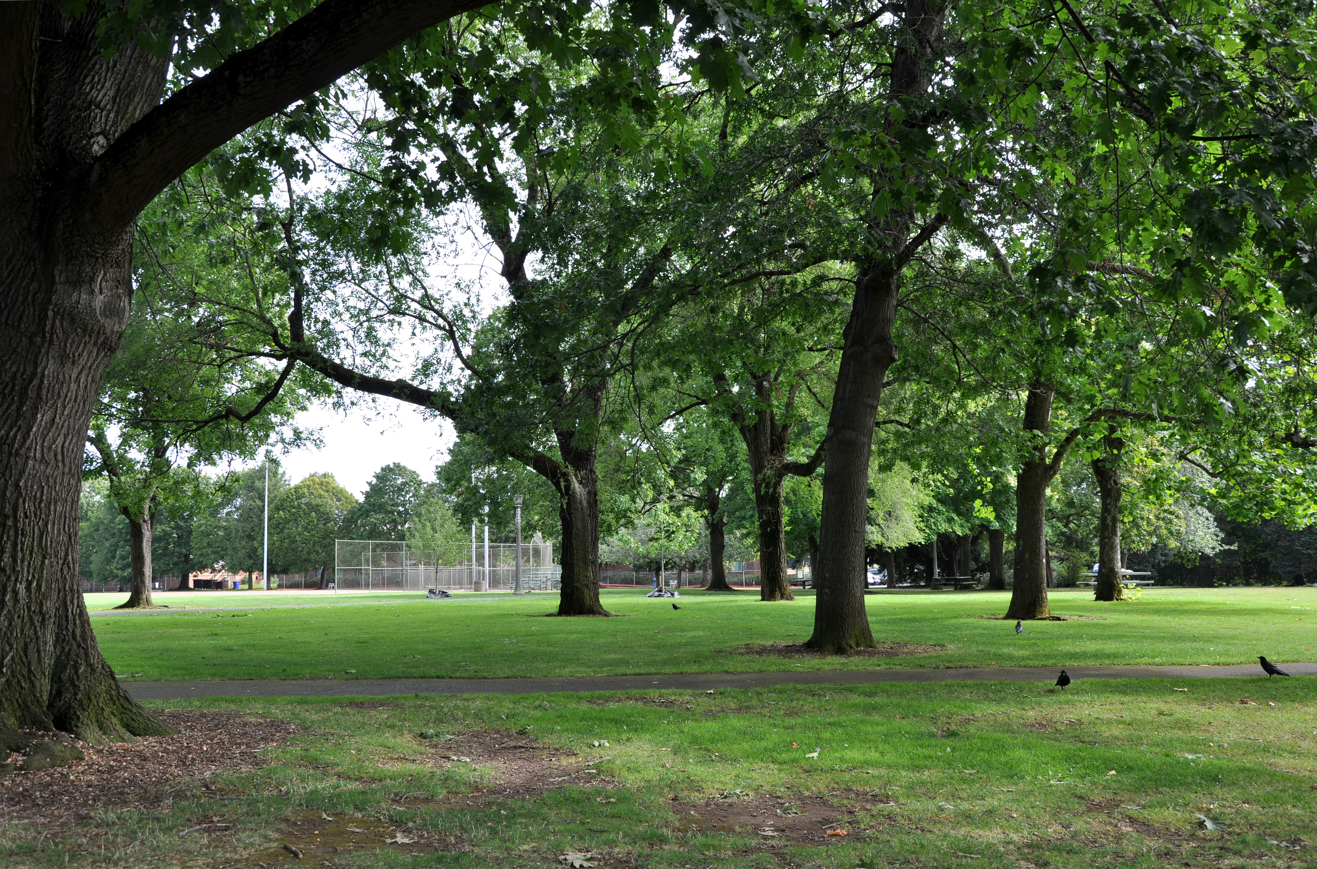 Montavilla Park in northeast Portland, Oregon, in the United States